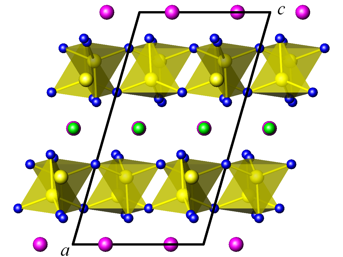 Crystal structure of augite. Green: calcium, pink: magnesium, yellow: silicon, blue: oxyggen.